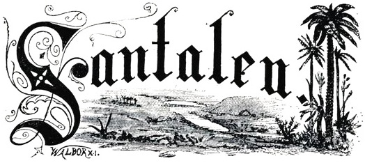 Logo of the journal Santalen ("The Santal")